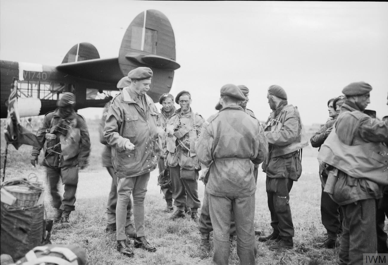 OPERATION OVERLORD (THE NORMANDY LANDINGS): D-DAY 6 JUNE 1944. The Airborne Assault: Major General Richard Nelson Gale OBE MC, the commander of 6th Airborne Division, talking to troops of 5th Parachute Brigade before they emplane at Royal Air Force Harwell on the evening of 4 or 5 June. Comment : this was the start of Operation Tonga, the British airborne landings at Normandy.